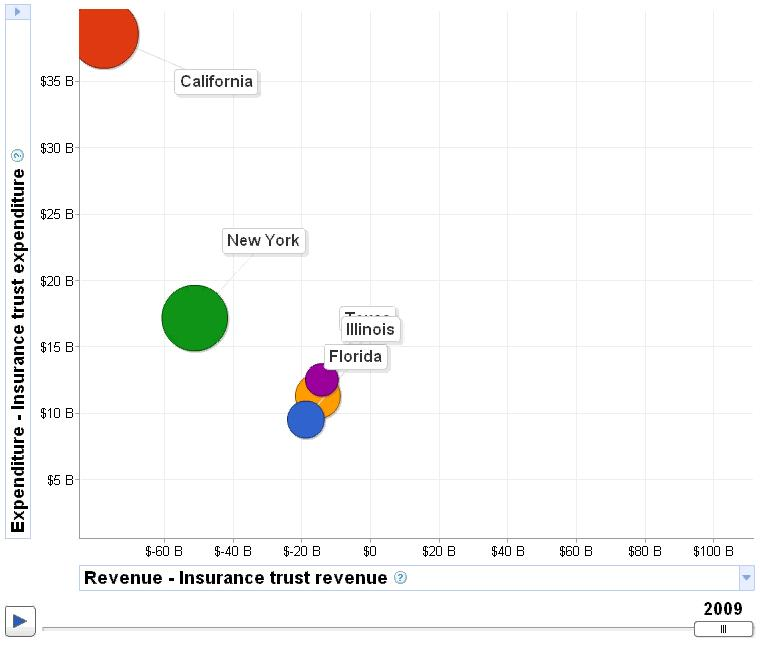 Governments Divison partnered with Google to include data from the Annual Survey of State government Finances in Google’s Public Data Explorer (“State Government Finances,” 2012). Using this tool, a user can create an animated bubble plot by selecting the variables of interest. This example is of an animated bubble plot created with this tool.